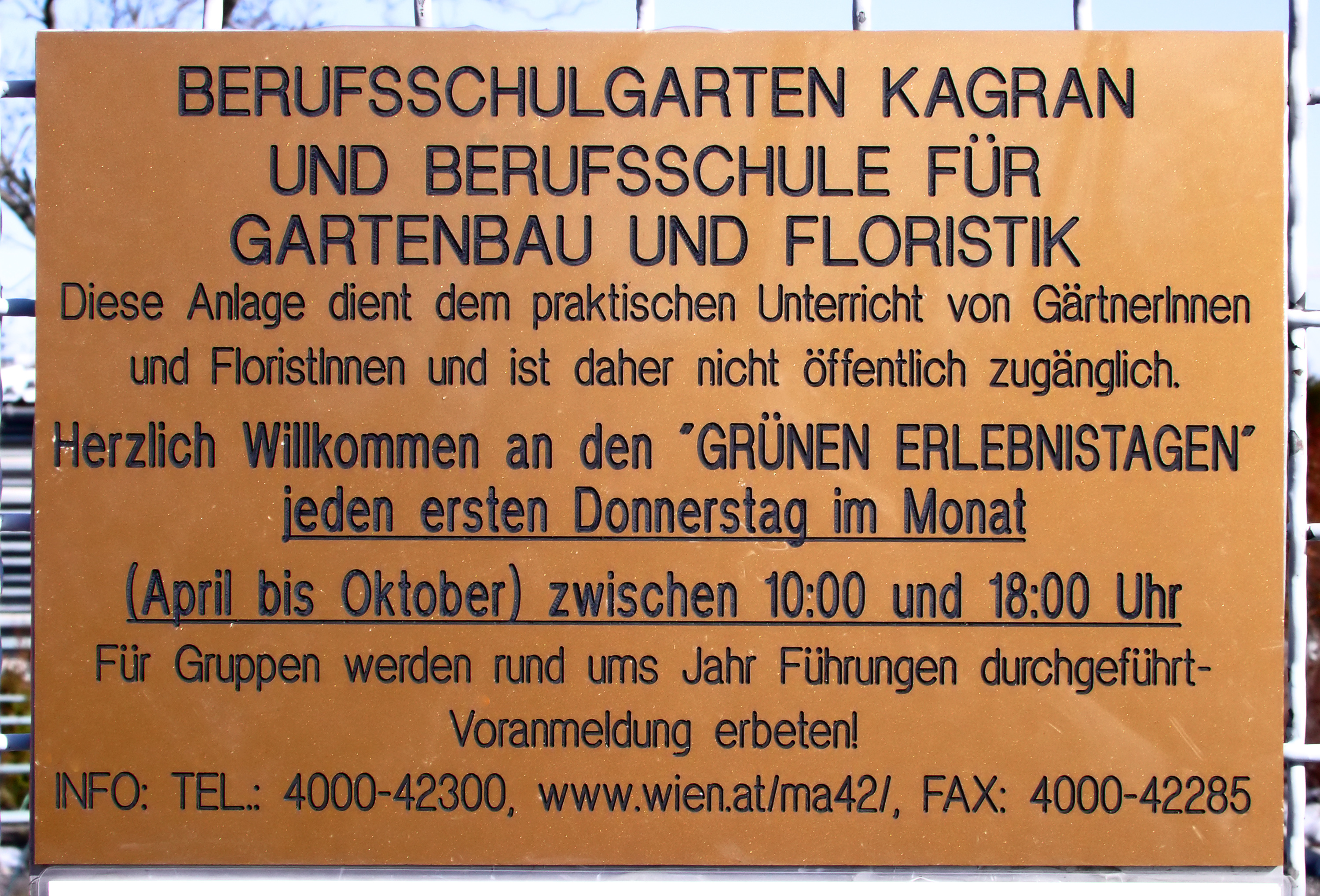 High School for Gardening and Floristry in Vienna Donaustadt